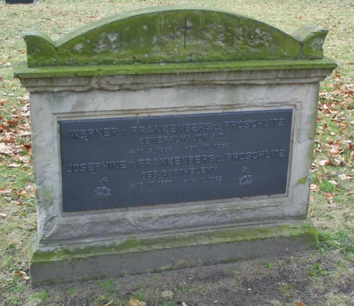 Grave of Werner and Josephine von Frankenberg-Proschwitz